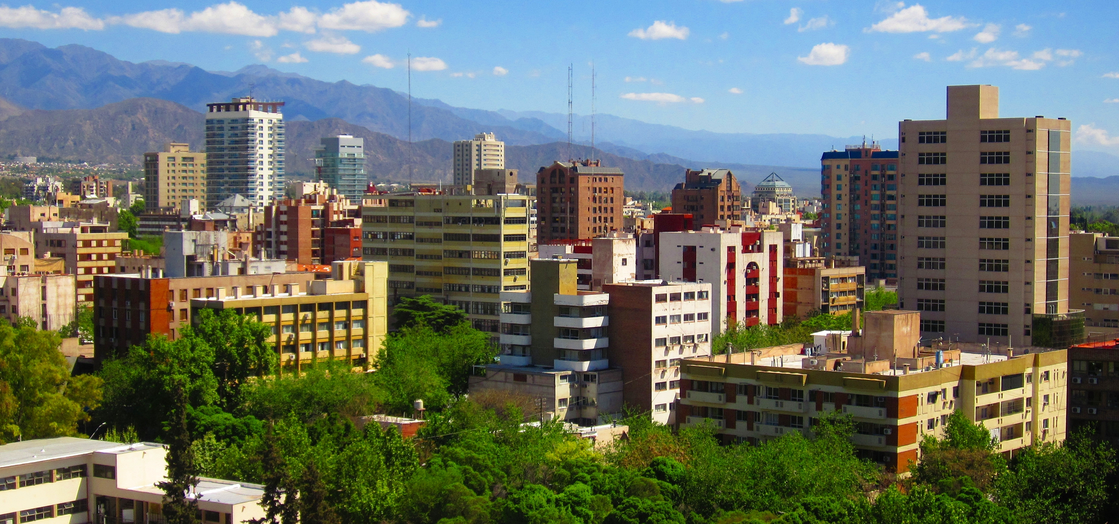 View of downtown Mendoza, Argentina.